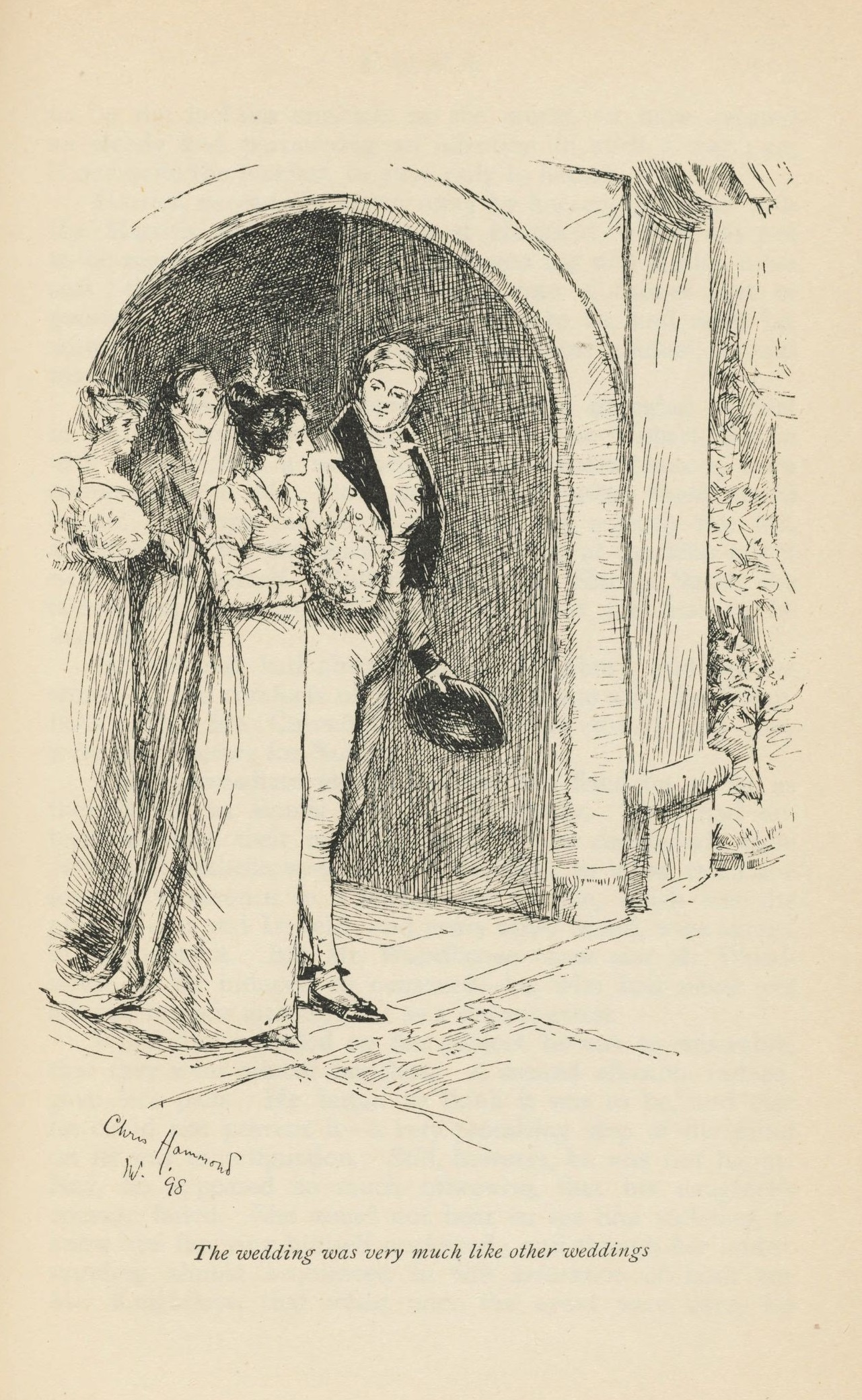 "The wedding was very much like other weddings" - an illustration by Chris Hammond of an 1898 edition of the novel Emma by Jane Austen (1775-1817). Houghton Typ 805.98.1770, Houghton Library, Harvard University